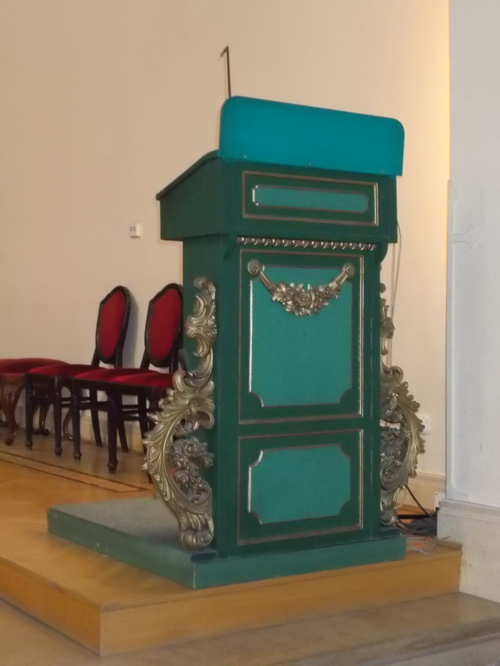 Saint Emeric church, lectern. - Villányi út, Budapest District IX, Budapest.